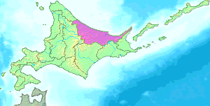 The map of Abashiri Subpref in Hokkaido, Japan.